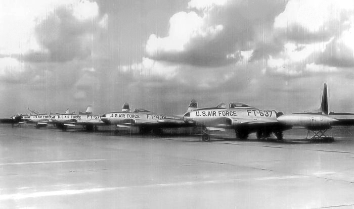 U.S. Air Force Lockheed F-80C Shooting Star fighters of the 342nd Fighter-Day Wing at Myrtle Beach Air Force Base, South Carolina (USA), in 1956. Identifiable aircraft are s/n 45-8537 (or 47-537), 44-85434 and 44-85440. The last aircraft in line is a two-seat Lockheed T-33A.